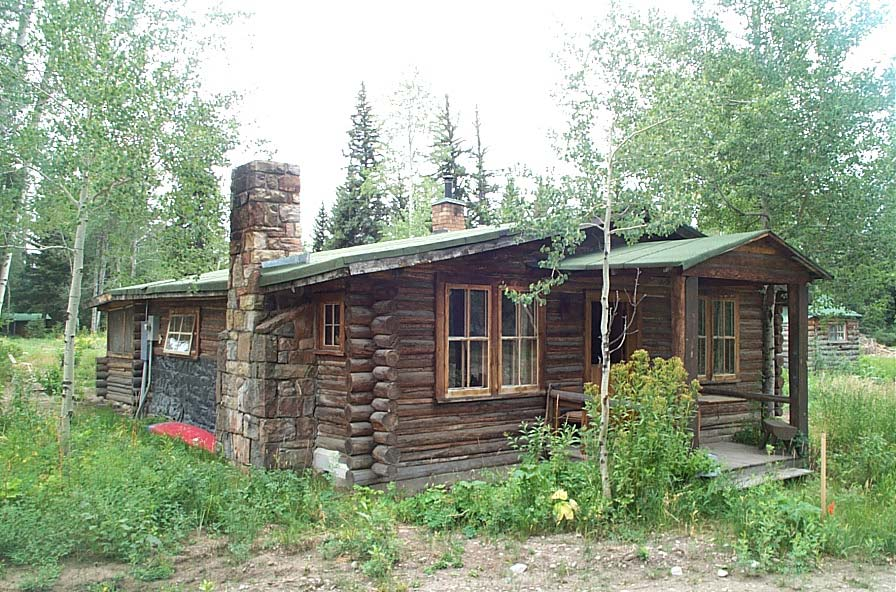 Estes Cain, Murie Ranch Historic District, Grand Teton National Park, Wyoming, USA